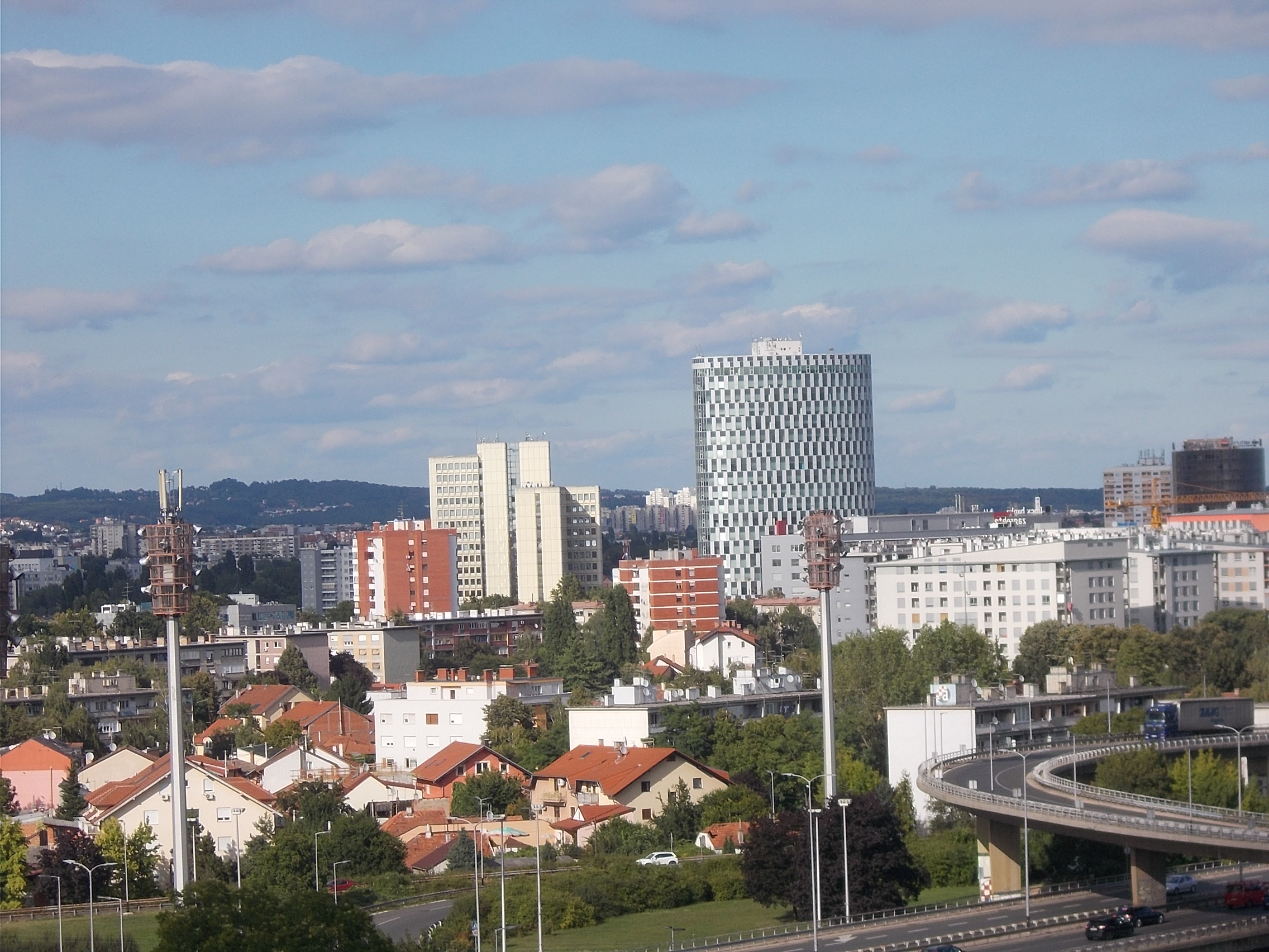 Chromos and Zagrebtower skyscrapers.